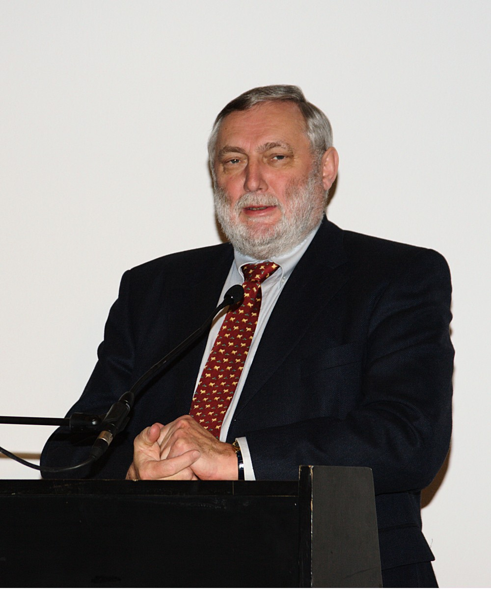 Austrian politician Franz Fischler.